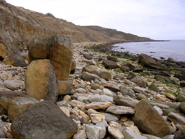 Broadrock towards Redliff Point, Weymouth Bay. East of Bowleaze Cove is this headland, whose clayey composition frequently slips and delivers limestones to the beach as large boulders.